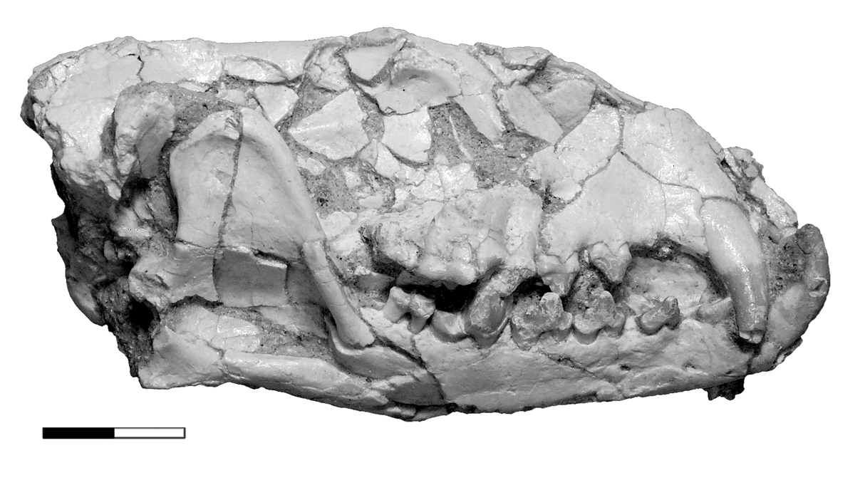 Skull of mandibles of Lycophocyon hutchisoni. Scale bar equals 2 cm.